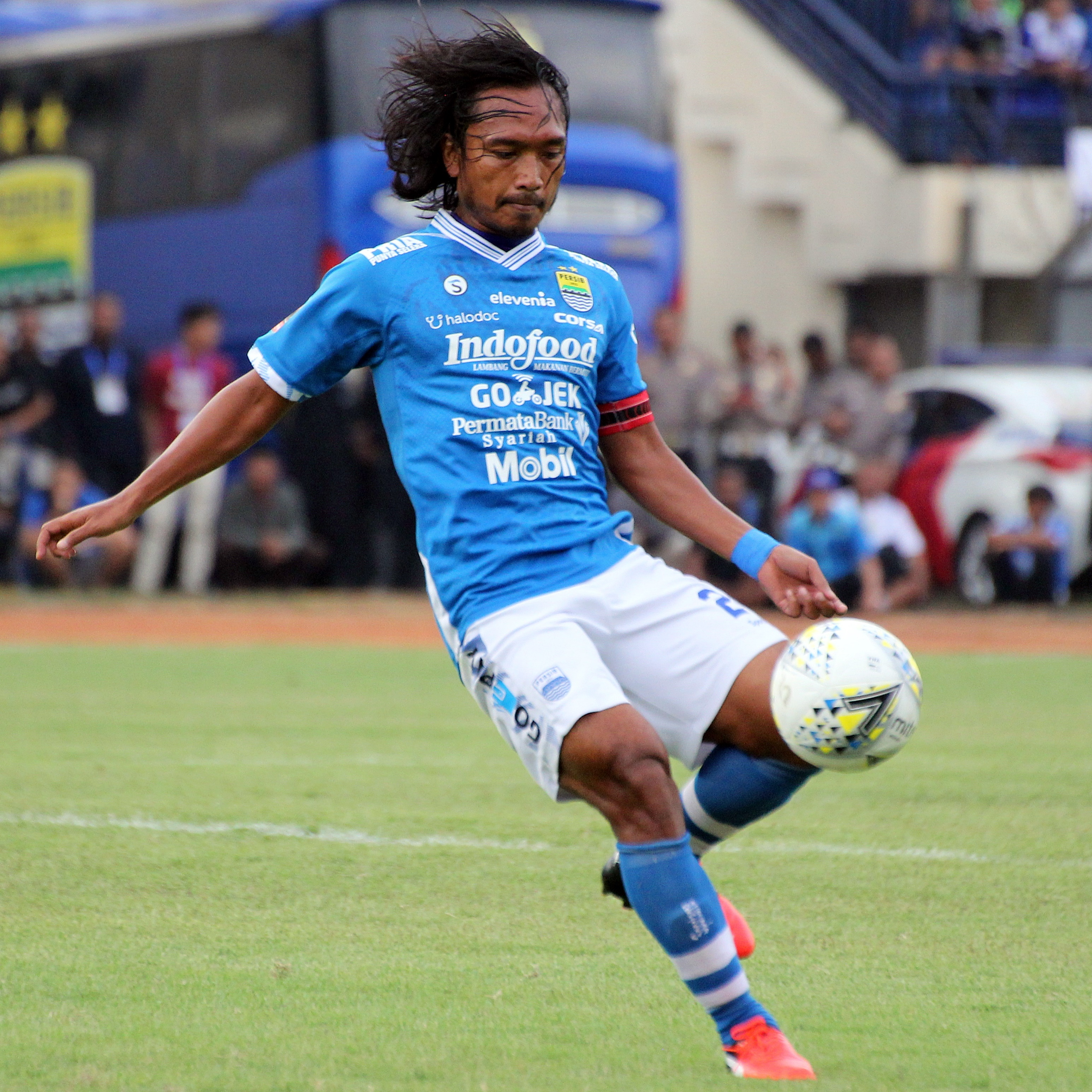 Hariono Legend